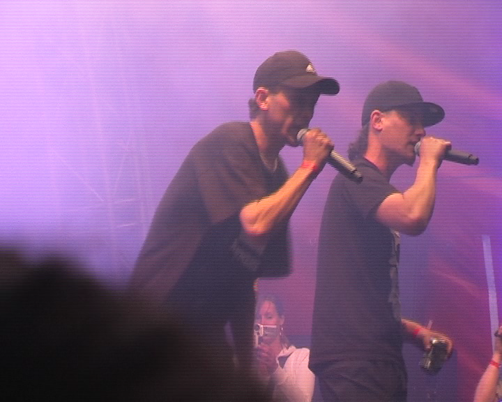 Dutch rappers Steen and Spinal in Rokkeveen, Zoetermeer, The Netherlands.